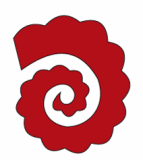 Blazon of Horn, Canton of Thurgau, Switzerland